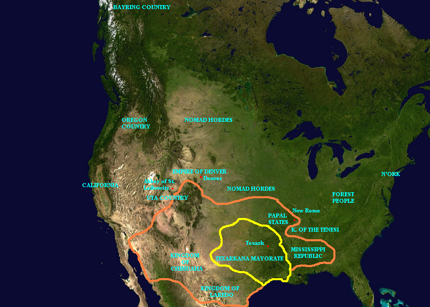 A map of North America in Walter M. Miller's A Canticle for Leibowitz. Specifically, the map depicts the territorial arrangement in 3174, during the time frame of "Fiat Lux". Texark territory outlined in yellow; Texark expansion as described in "Fiat Lux" and in Saint Leibowitz and the Wild Horse Woman marked in orange.